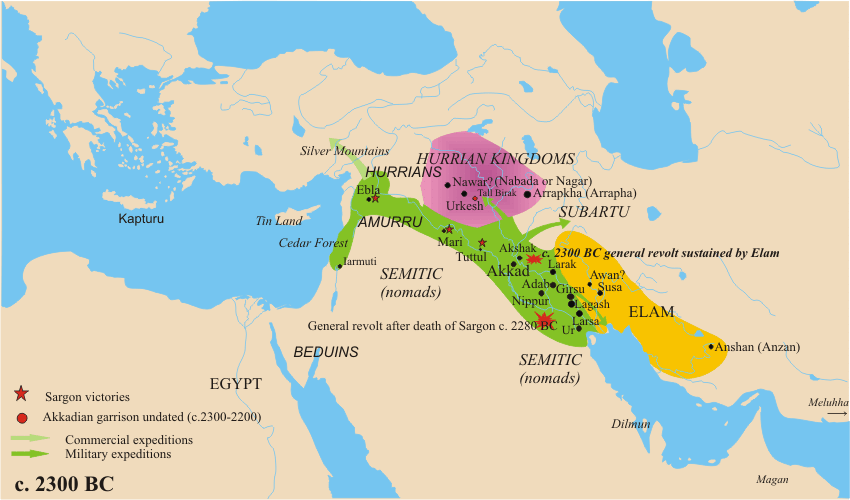 The Middle East around 2300 BC